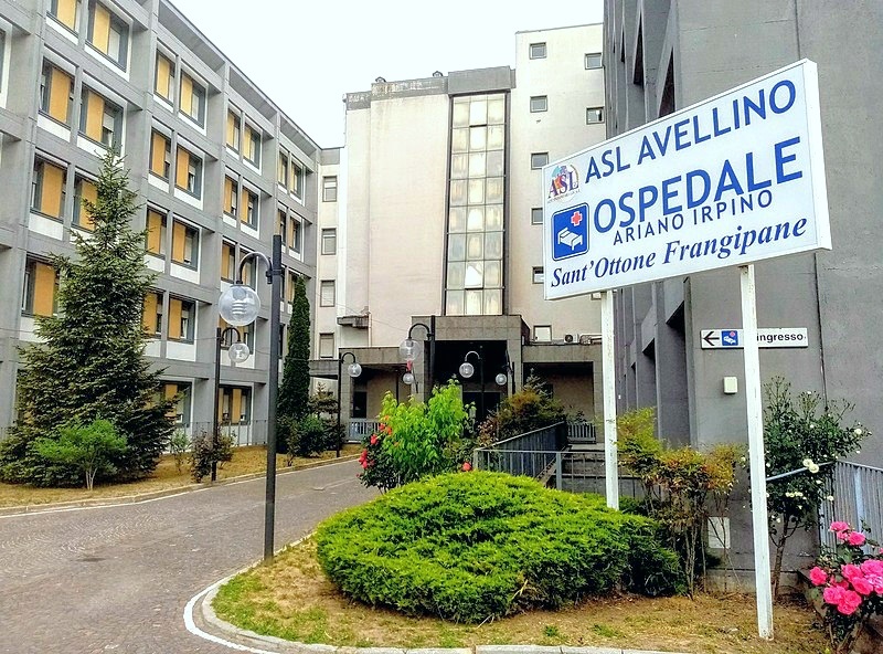 Saint Ottone Frangipane Hospital sign in Ariano Irpino, Italy